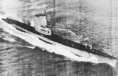 USS_Redfin; Redfin (SS-272) underway, circa 1963, place unknown. US Navy photo courtesy of Hyperwar US Navy in WW II web site.